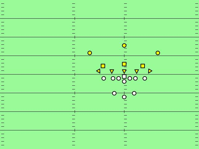 5-3, based on images in Dana Bible's 1947 text and video of the Cleveland Browns 1950 NFl championship. Position of defensive backs is speculative, as I couldn't see them on the video.